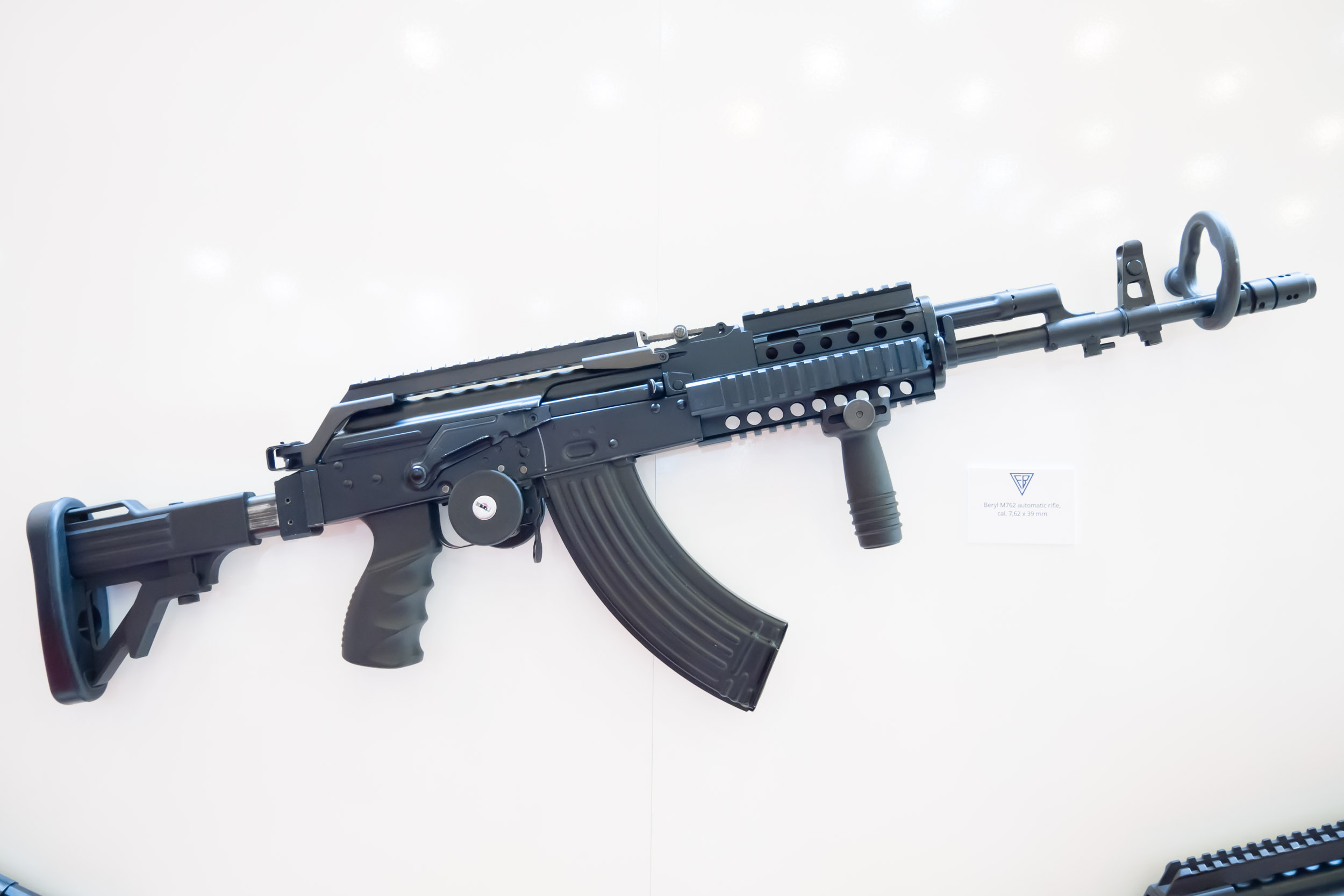 Beryl M762 automatic rifle, cal 7.62x39 mm by Polish company FABRYKA BRONI "ŁUCZNIK". 'Zbroya ta Bezpeka' military fair, Kyiv, Ukraine, 2018